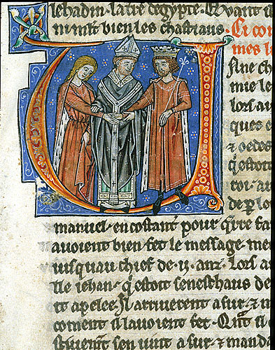 Marriage of Amalric I of Jerusalem and Maria Comnena